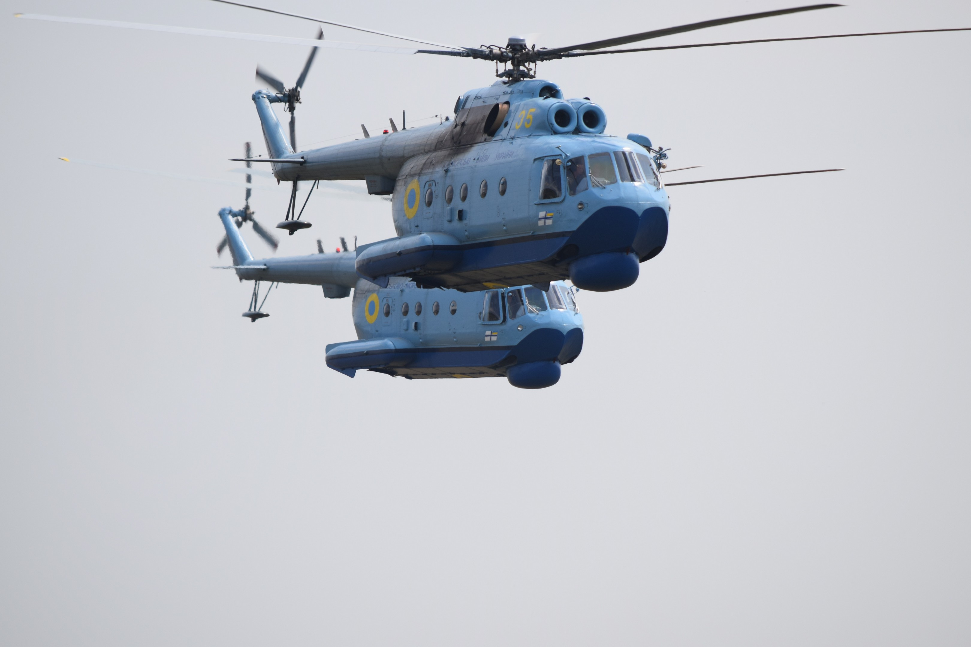 Mil Mi-14. Sea Breeze 2018.